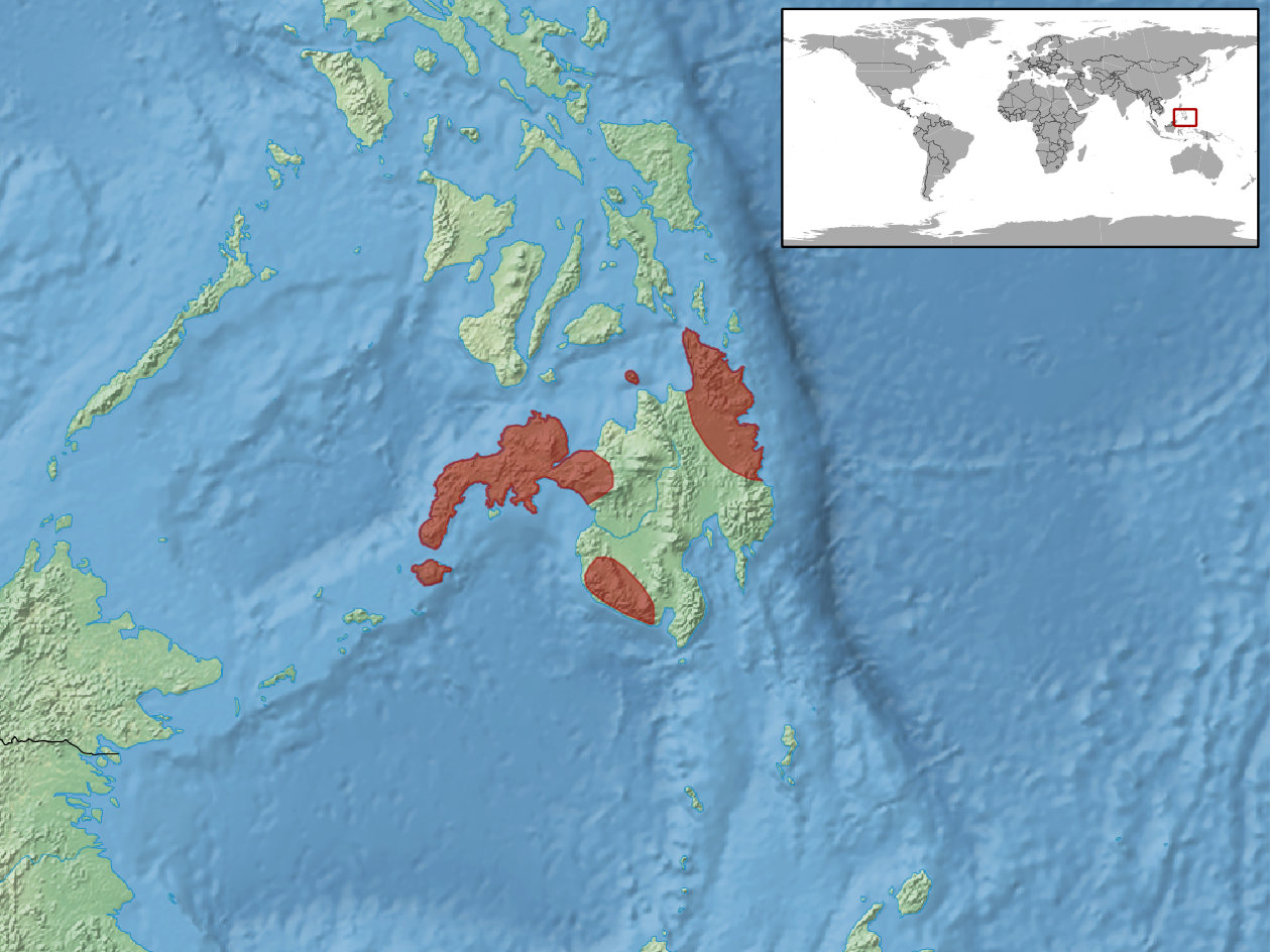 geographic distribution of Tropidophorus misaminius